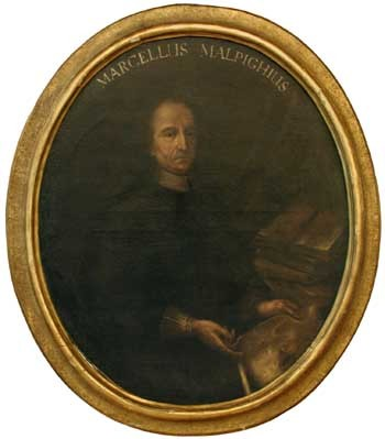 Portrait of Malpighi on the wall of the Rector's Study, Bologna University.